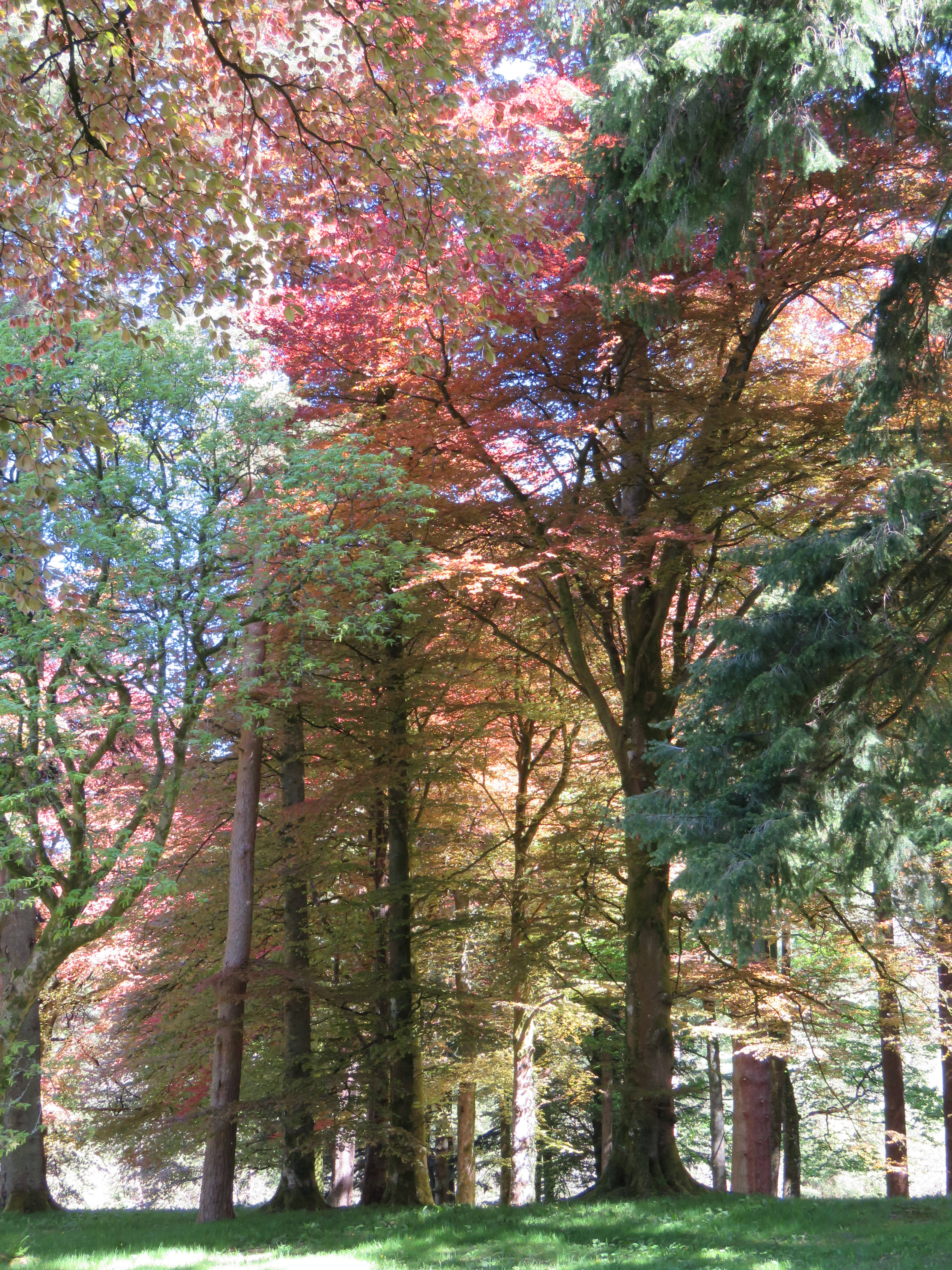 Trees in sculpture park below the dam, Lake Vyrnwy, Wales